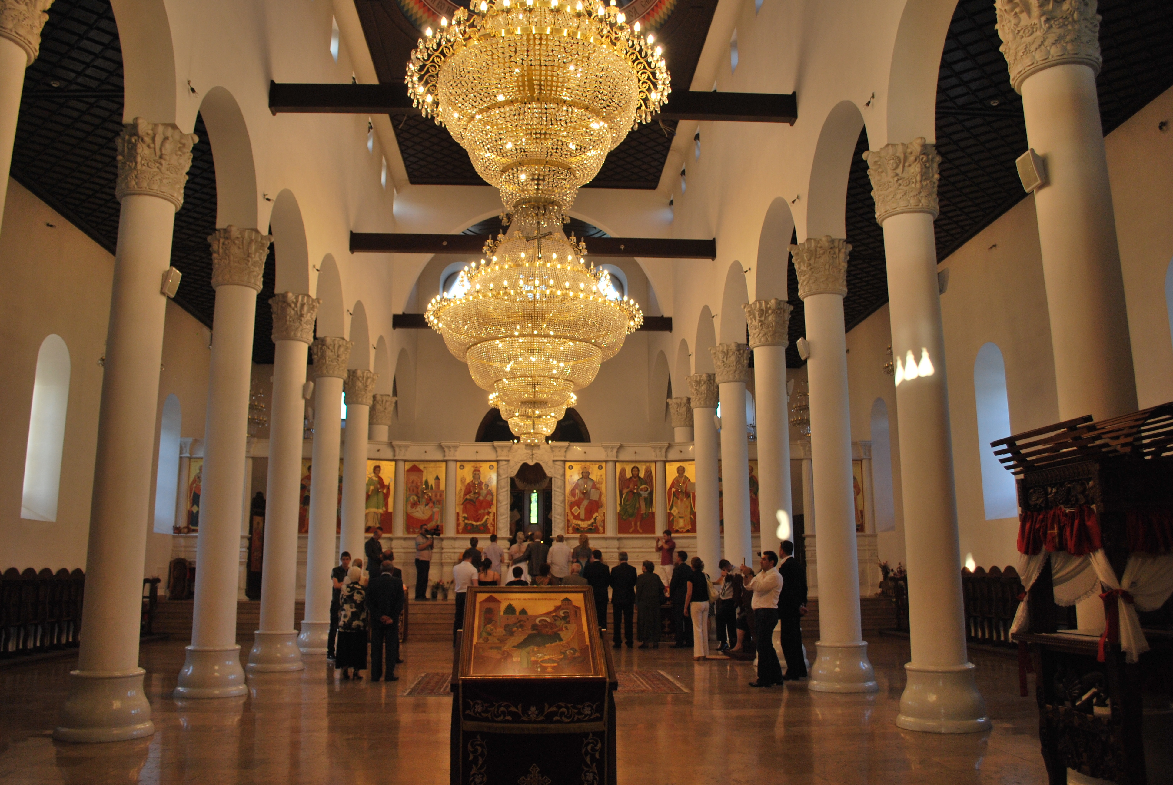 Nativity of the Theotokos Church in Skopje, Macedonia